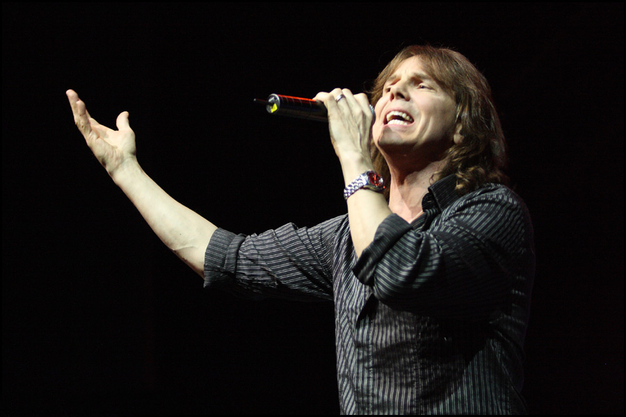 Joey Tempest of Europe, by Enrico Dal Boni.